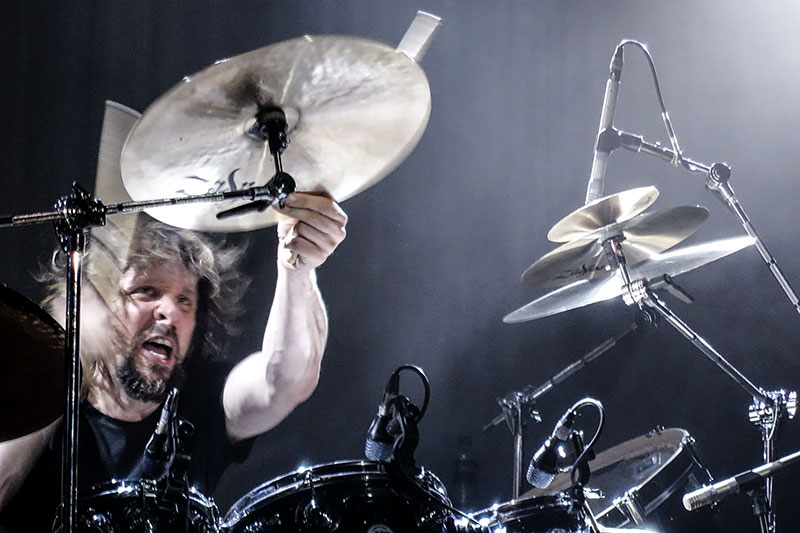 Marco Minnemann in Aarhus, Denmark 2016